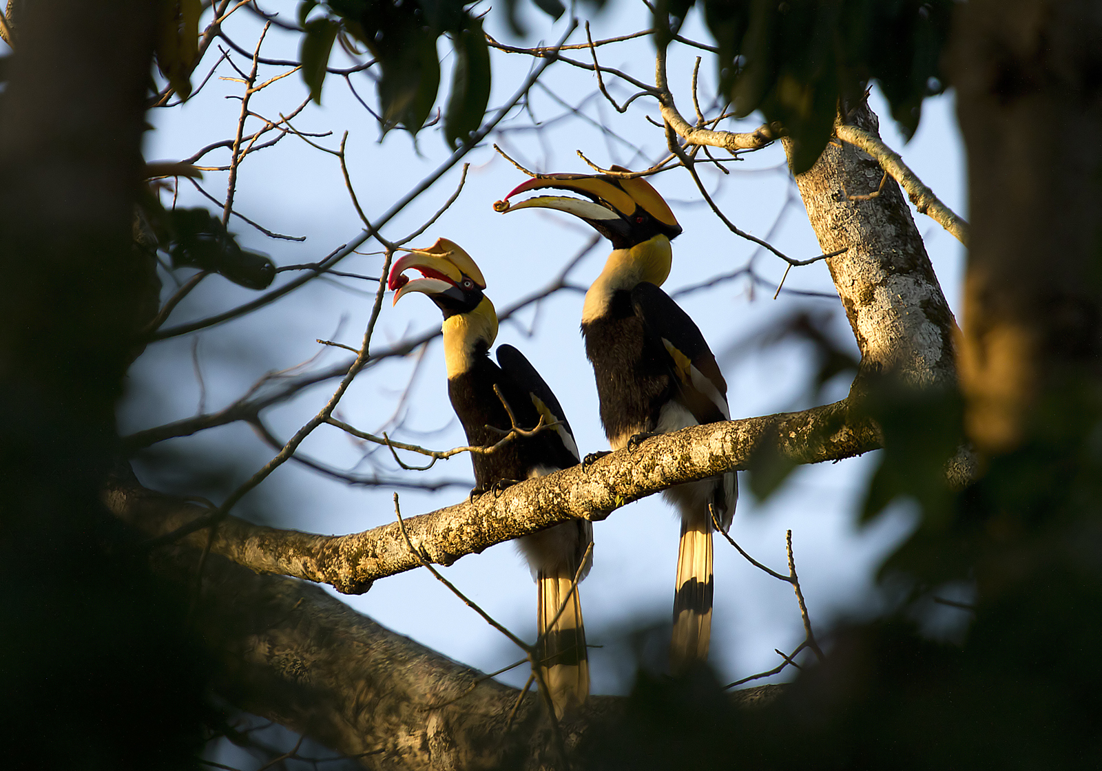 Horn bills are for life